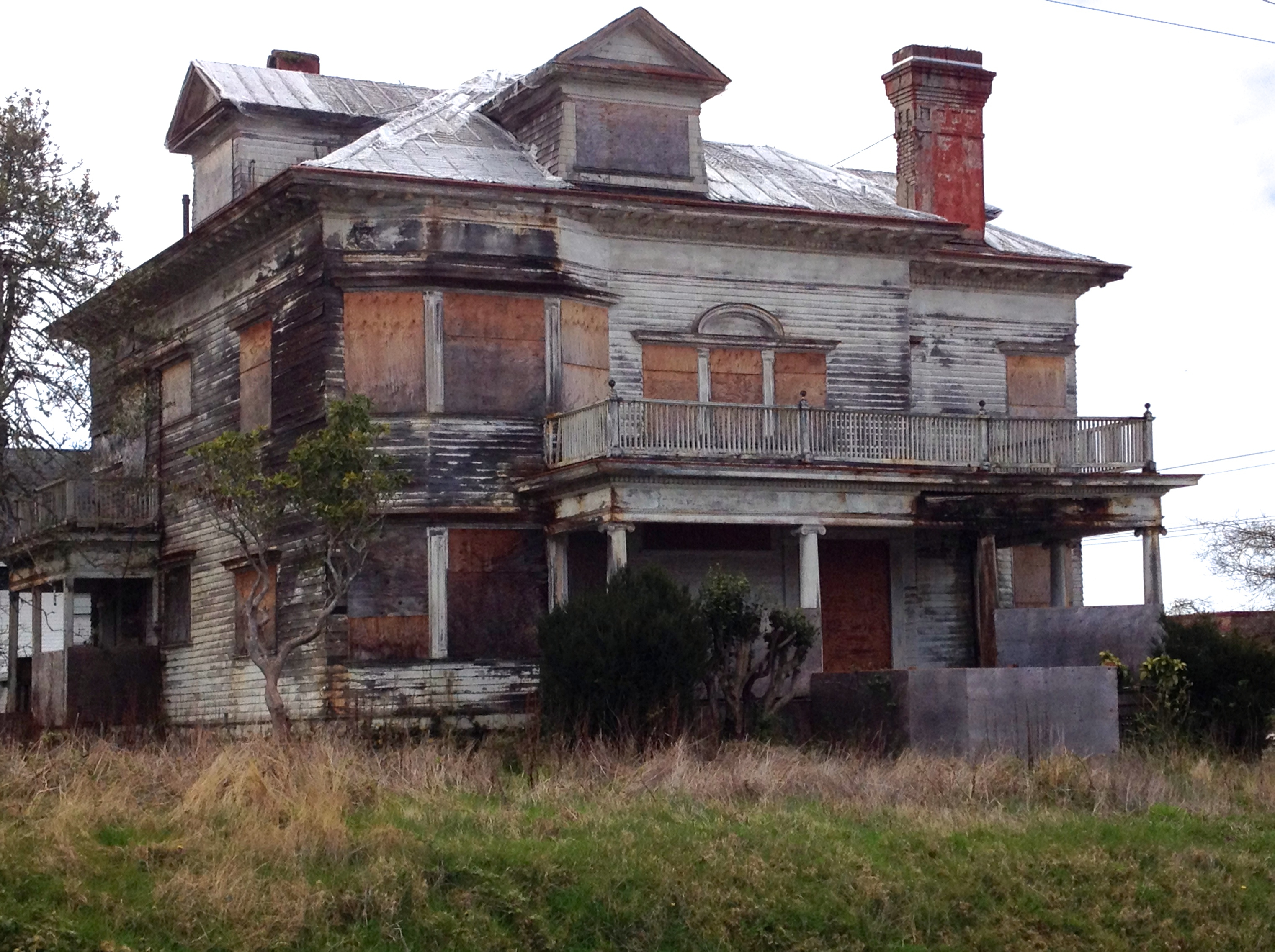 Captain George Conrad Flavel House (built in 1901), at 627 15th Street in Astoria, Oregon, is listed on the U.S. National Register of Historic Places.